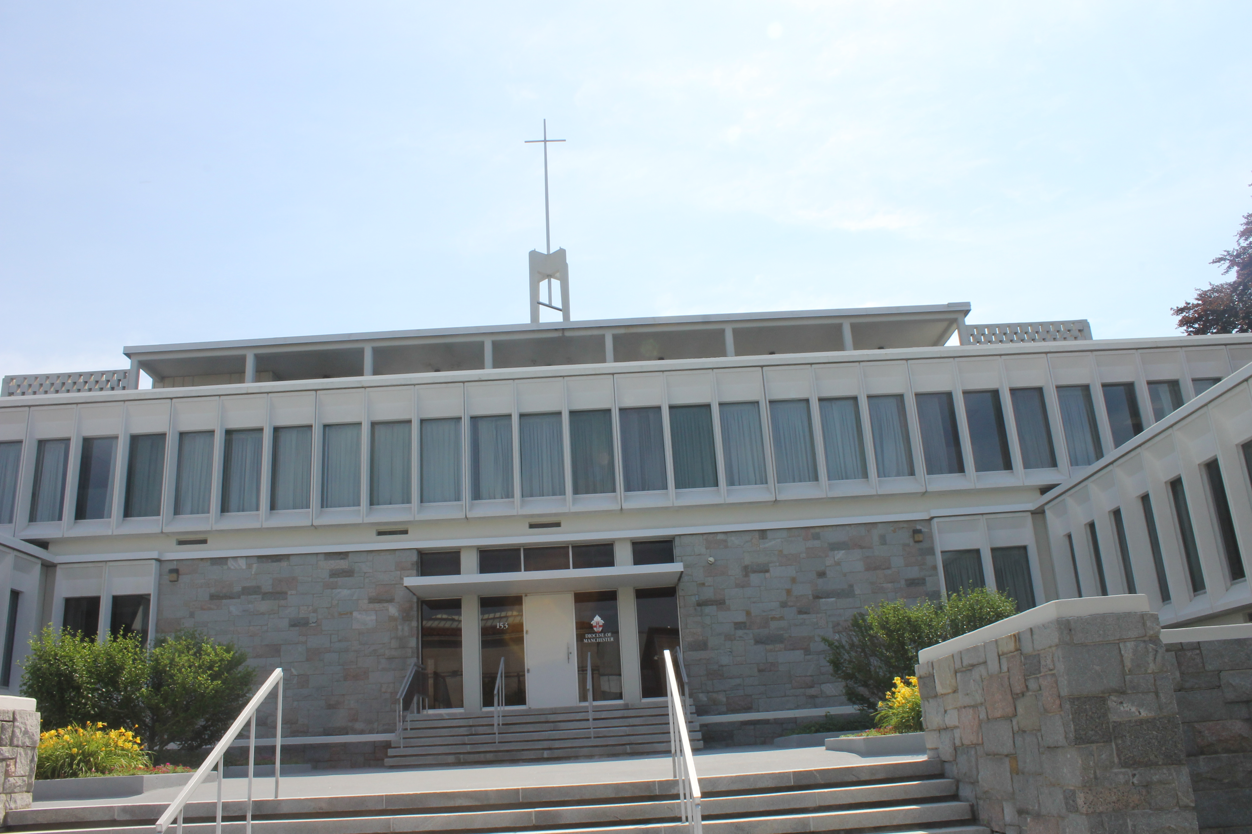 I took photo with Canon camera of Roman Catholic Diocese of Manchester, NH.